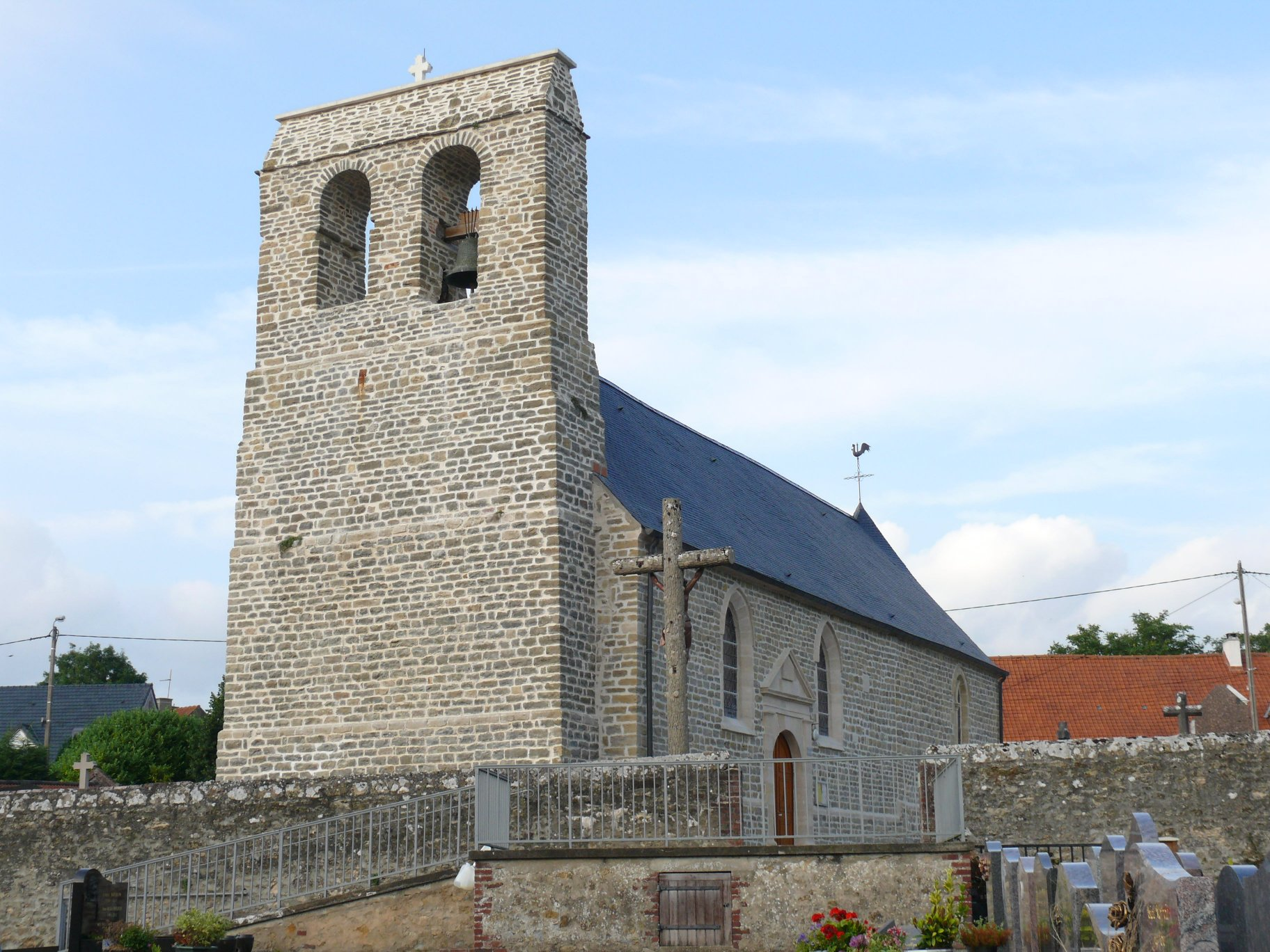 Saints-Apolline-and-Wulmer's church of Isques (Pas-de-Calais, France).